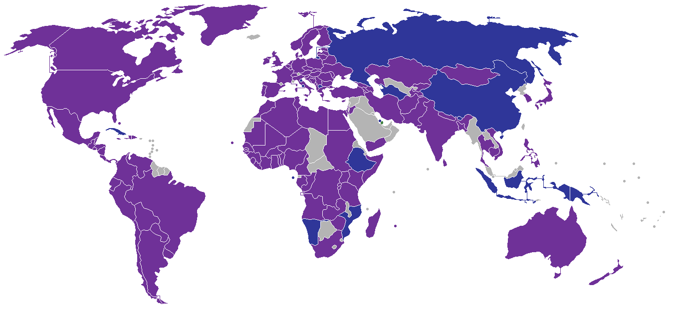 IOM members and partners